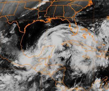 Tropical Storm opal off the coast of Mexico on October 1. This image was captured by the GOES-8 satellite at 0245 UTC.